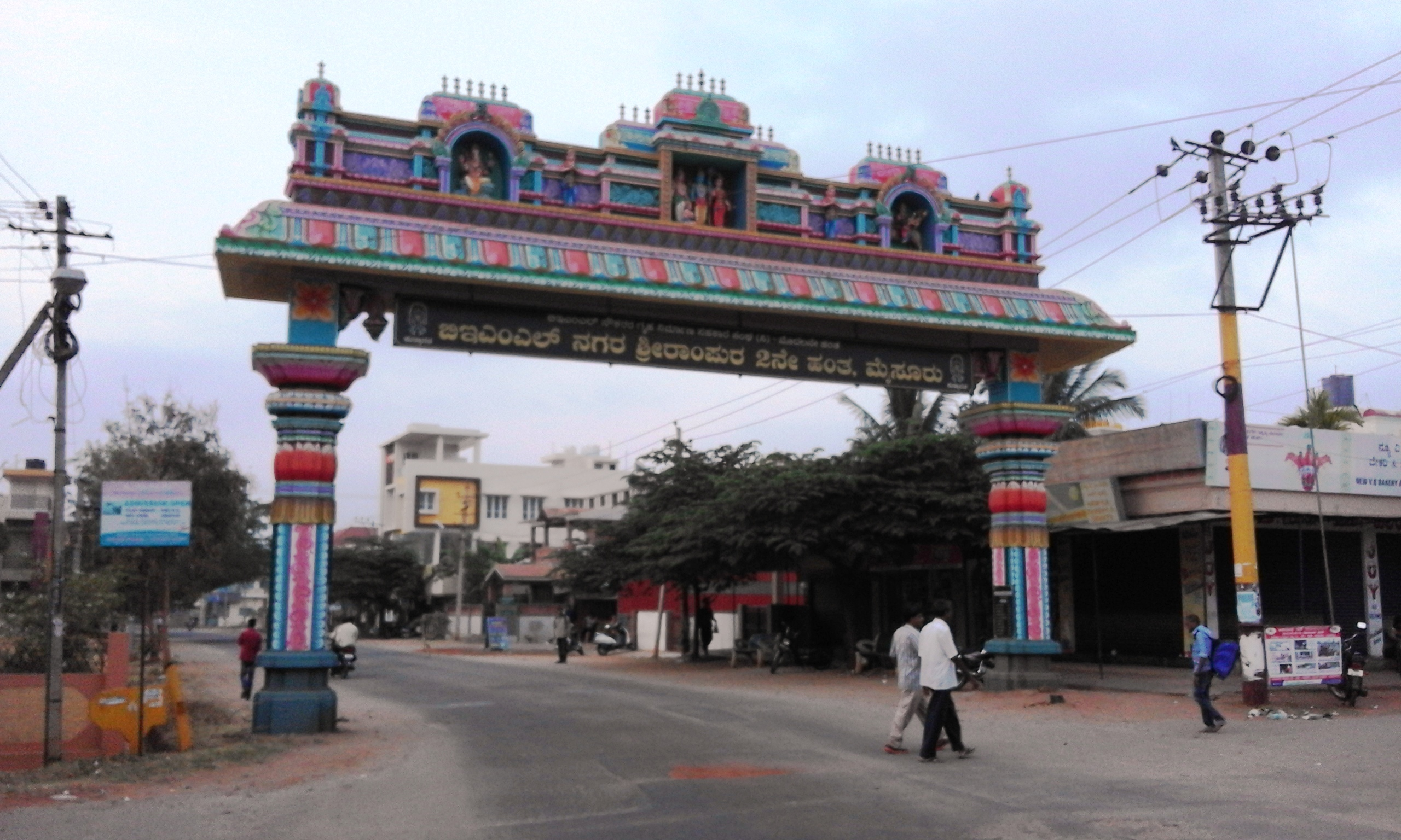 BEML Second Stage, Vivekananda Nagara, Mysore, India.